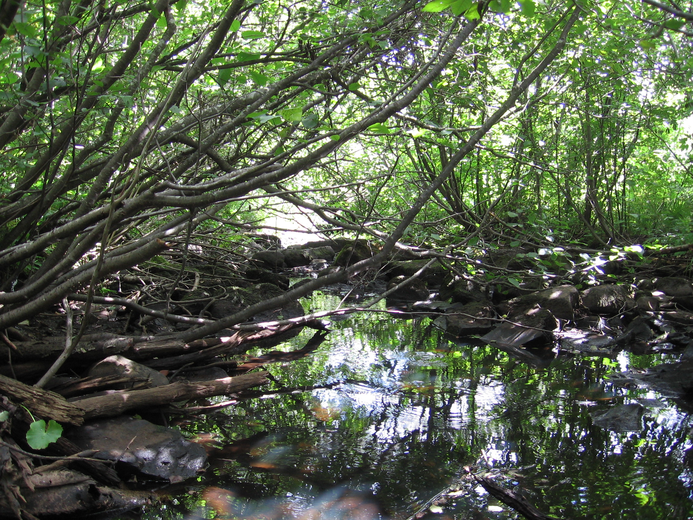 A deciduous riparian forest on a tributary of the St. Louis River, Cloquet, Minnesota.